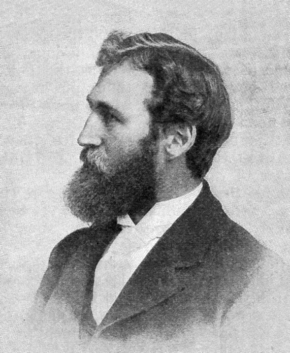 Herbert D. Ward from a photograph by E. L. Allen, Boston.